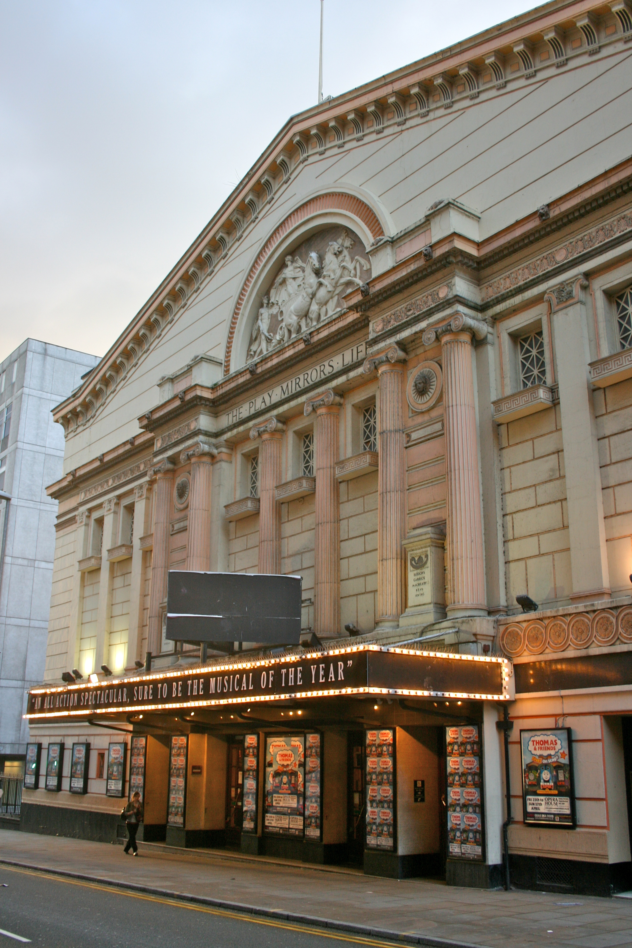 Manchester Opera House in Manchester, England.